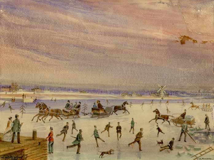 Winter scene on Toronto Bay, looking from Taylor's Wharf looking east towards Gooderham & Worts' windmill.